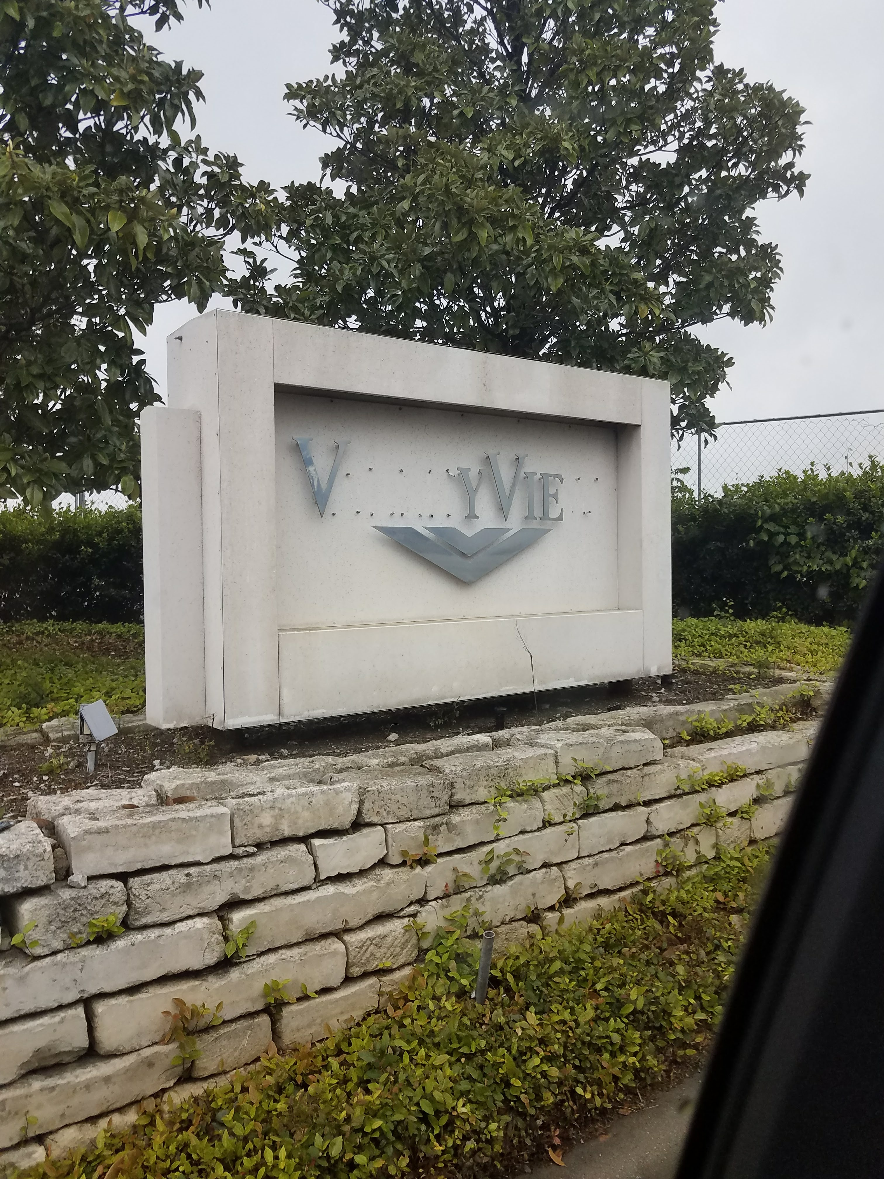 A poorly maintained sign